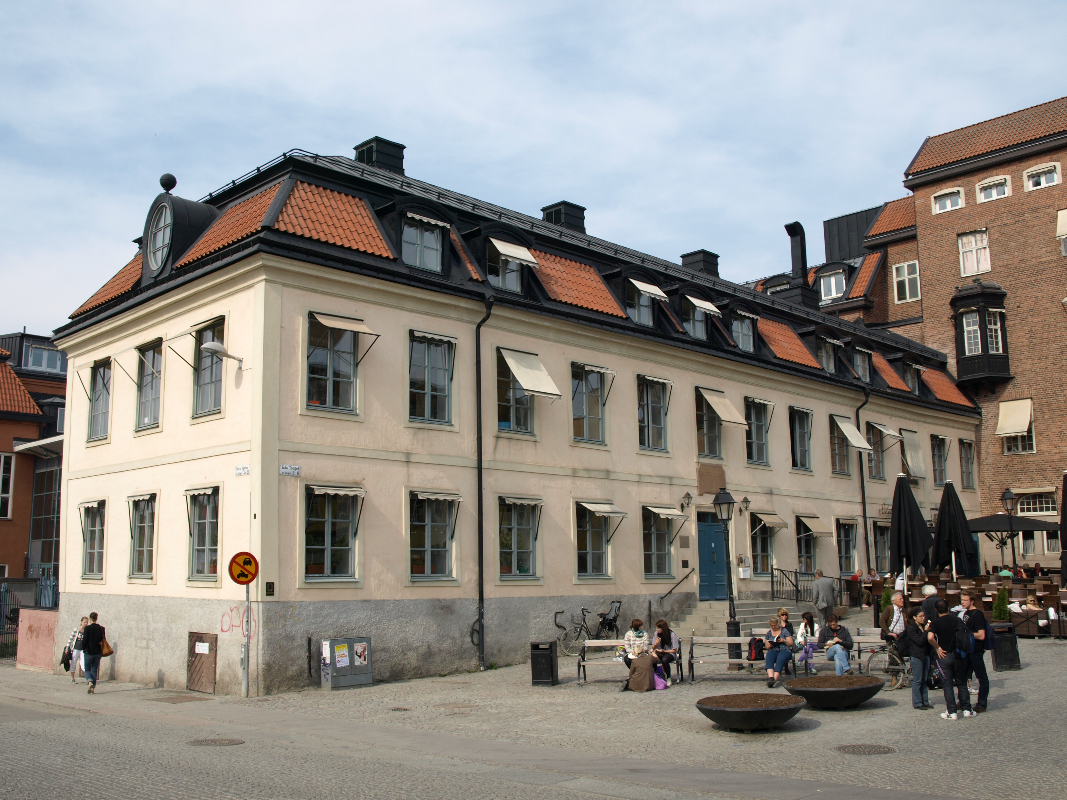 Theatrum Oeconomicum, Uppsala, Sweden